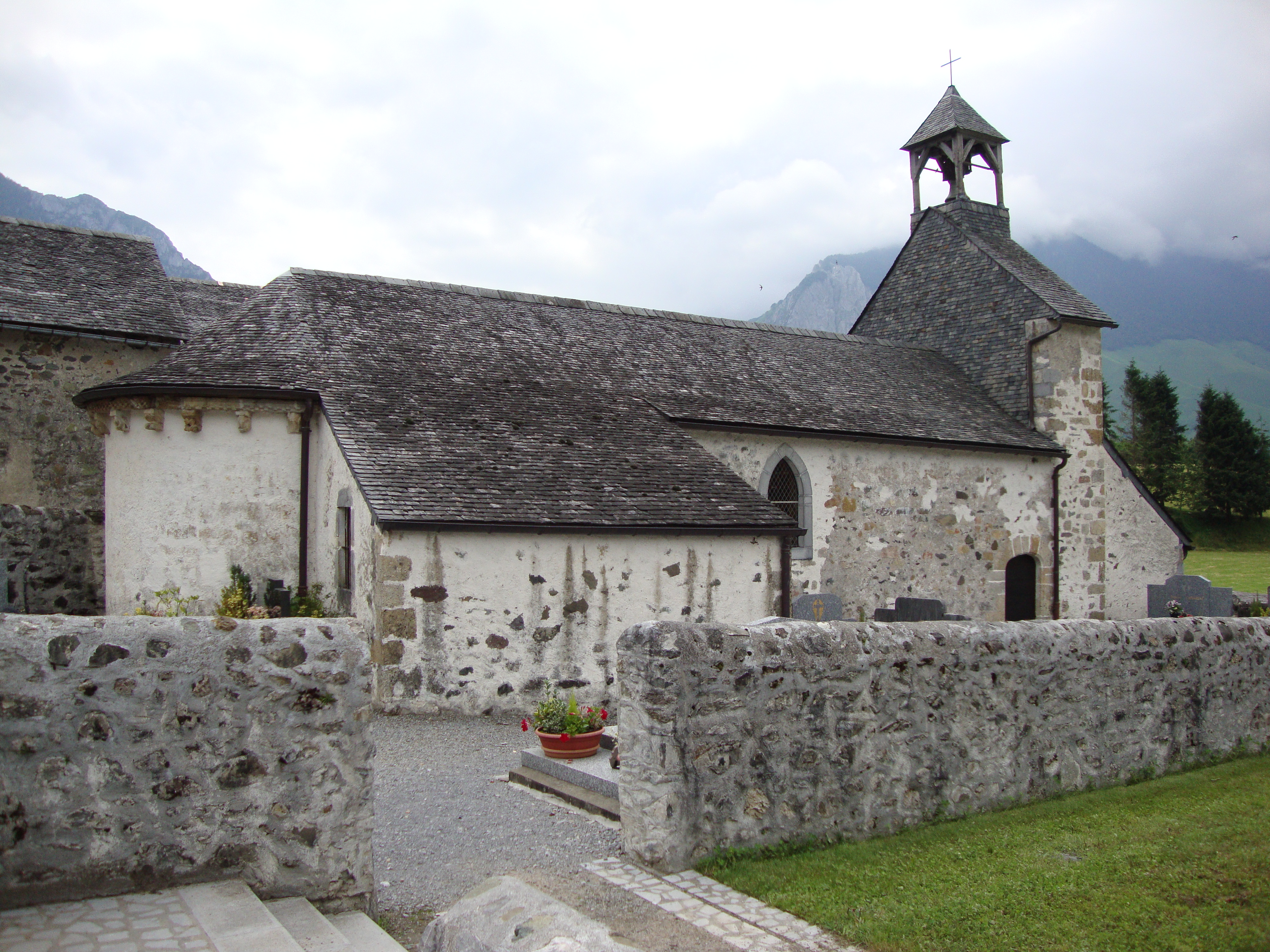 Jouers (Accous, Pyr-Atl, Fr) Saint-Saturnin chapel sideview